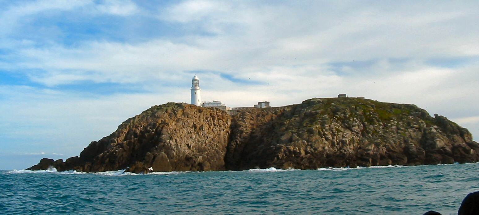 the photographer (Tom Corser) is credited.Round Island, Isles of Scilly. Photo taken by Tom Corser 2003.